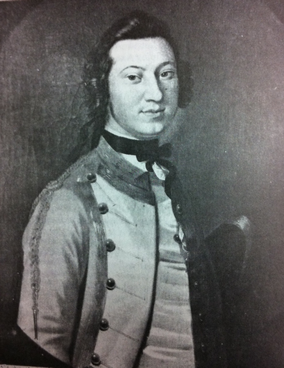 George Scott - British Army Officer image 1750